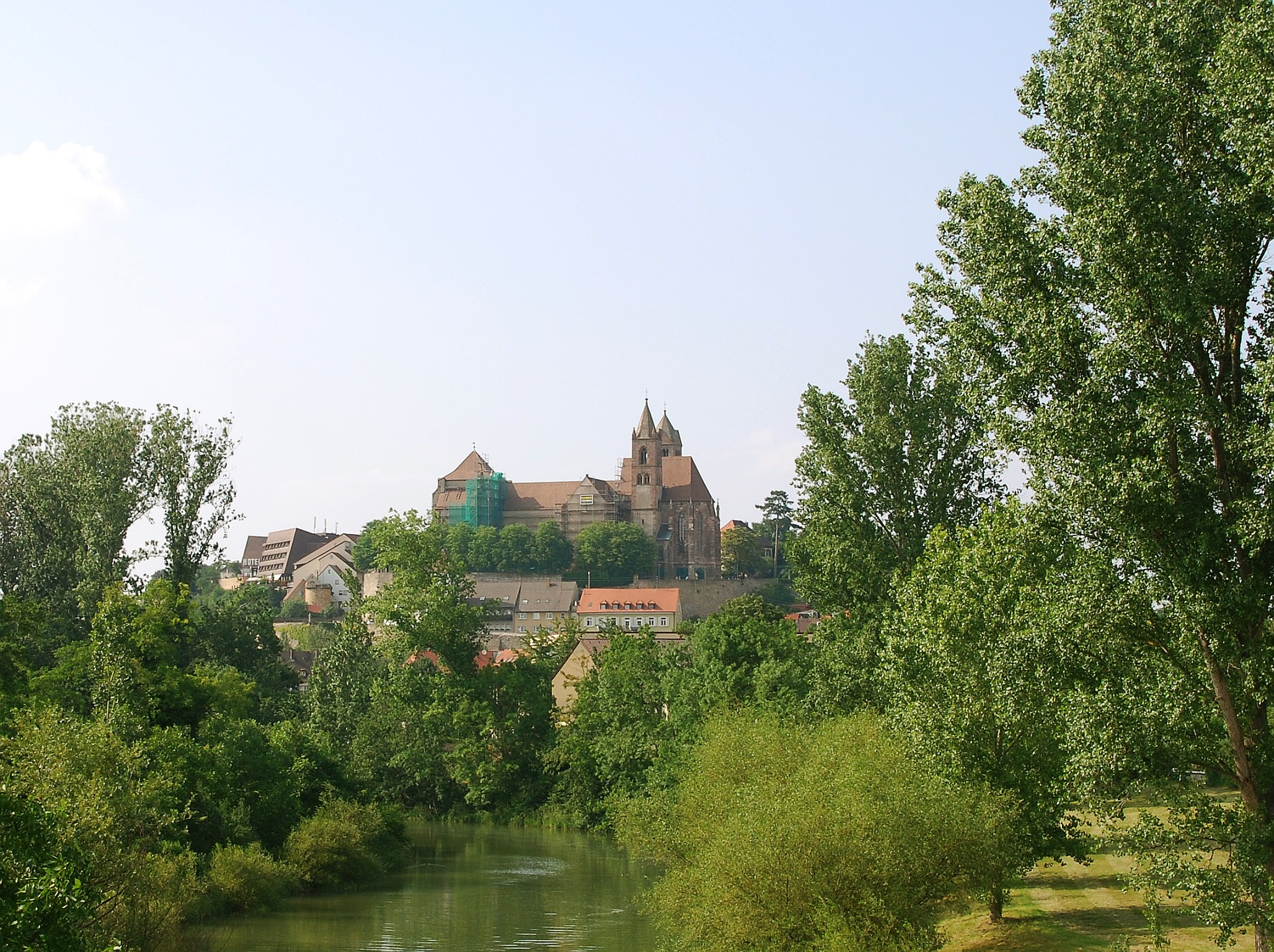 Breisach Minster. General view from South. Breisach am Rhein, Germany.